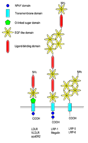 Structure of the LDLR Family.